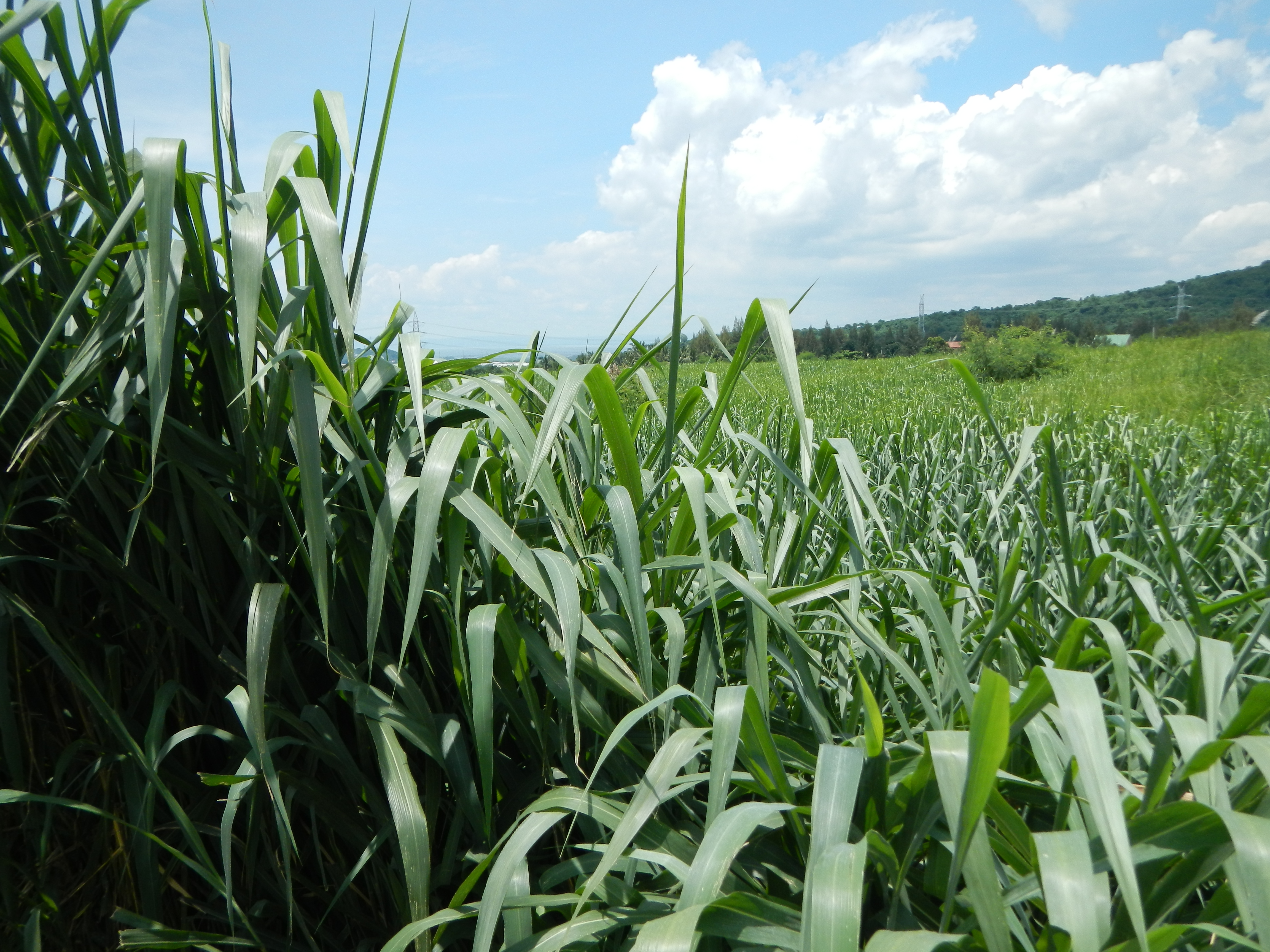 Turbina Bus Terminal (Prinza, Calamba City[1] - Pan-Philippine Highway[2]- The Pan-Philippine Highway, also known as the Maharlika "Nobility/Free People" Highway AH26 AH26 is a 3,517 km 2,185 mi network of roads, bridges, and ferry services that connect the islands of Luzon, Samar, Leyte, and Mindanao in the Philippines, serving as the country's principal transport backbone.[3] Maharlika Highway Daang Maharlika) - accessible if entered Exit 50 or Batangas Exit of SLEX. It passes through barangays Turbina, Tulo, and Makiling in Laguna, and continues through Batangas and ends at Lipa City. Along Maharlika Highway are numerous factories, warehouses, and other industrial sites that can be found in Calamba City, Laguna, and Sto. Tomas, Batangas). Mount Makiling [4] --- Turbina Bus Terminal (Prinza, Calamba City)[5] Coordinates: 14°11'4"N 121°8'8"E [6] near SLEX - Calamba (Turbina) Exit[Coordinates: 14°11'34"N 121°8'27"E] Calamba City[7] Calamba, Laguna. (I decided to re-photograph this scenic center of bus transportation, for it is the gateway and only path to Bicol province and other provinces, and the Mountain is blue and clear amid the so bright sun.)